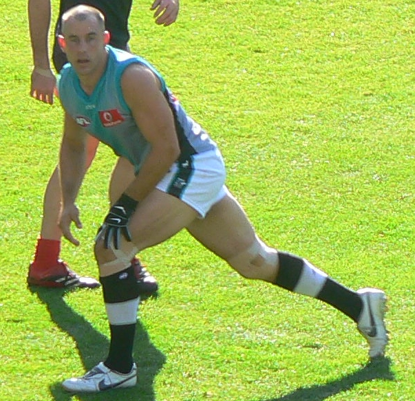 Warren Tredrea, Aussie Rules player